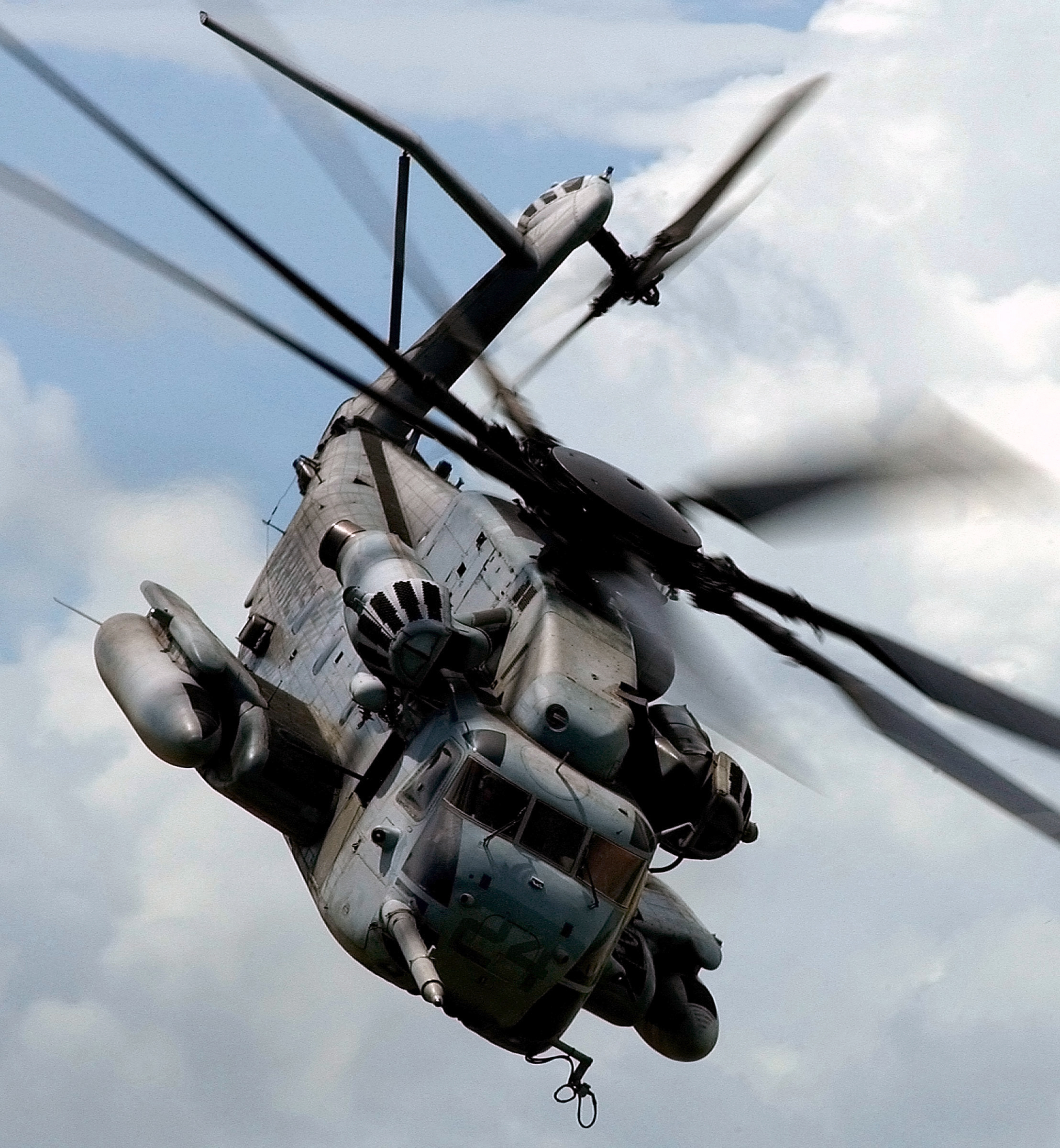 Samesan Royal Thai Marine Base, Thailand (May 28, 2002) -- A CH-53E Super Stallion assigned to the “Heavy Haulers” of Helicopter Light Squadron 462 (HMH-462) takes off to demonstrate an amphibious assault during “Cobra Gold 2002.” Cobra Gold 2002 is the 21st U.S. Pacific Command exercise conducted in Thailand demonstrating the ability of U.S. Forces to rapidly deploy and conduct Joint-combined operations with the Thai and Singaporean armed forces. U.S. Air Force photo by Staff Sgt. Jerry Morrison. (RELEASED)